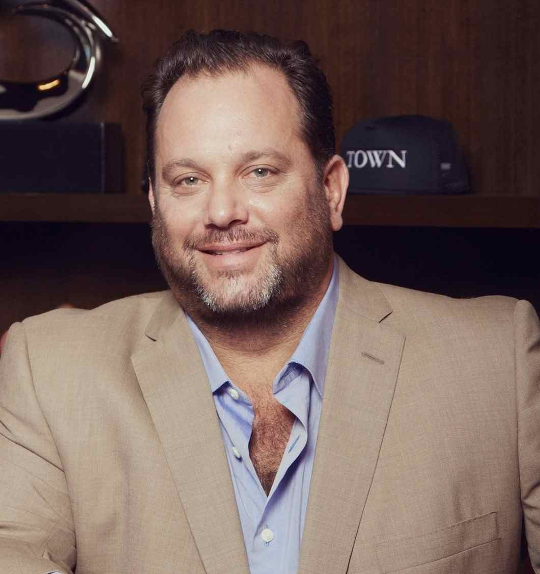 Andrew Heiberger, owner of Town Residential LLC